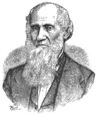 Squire Whipple, from Whipple Cast & Wrought Iron Bowstring Truss Bridge, Normans Kill Vicinity, Albany, Albany County, NY. (HAER NY,1-ALB,19-11) (Image was cropped removing the following handwritten text, "Respectfully S. Whipple")